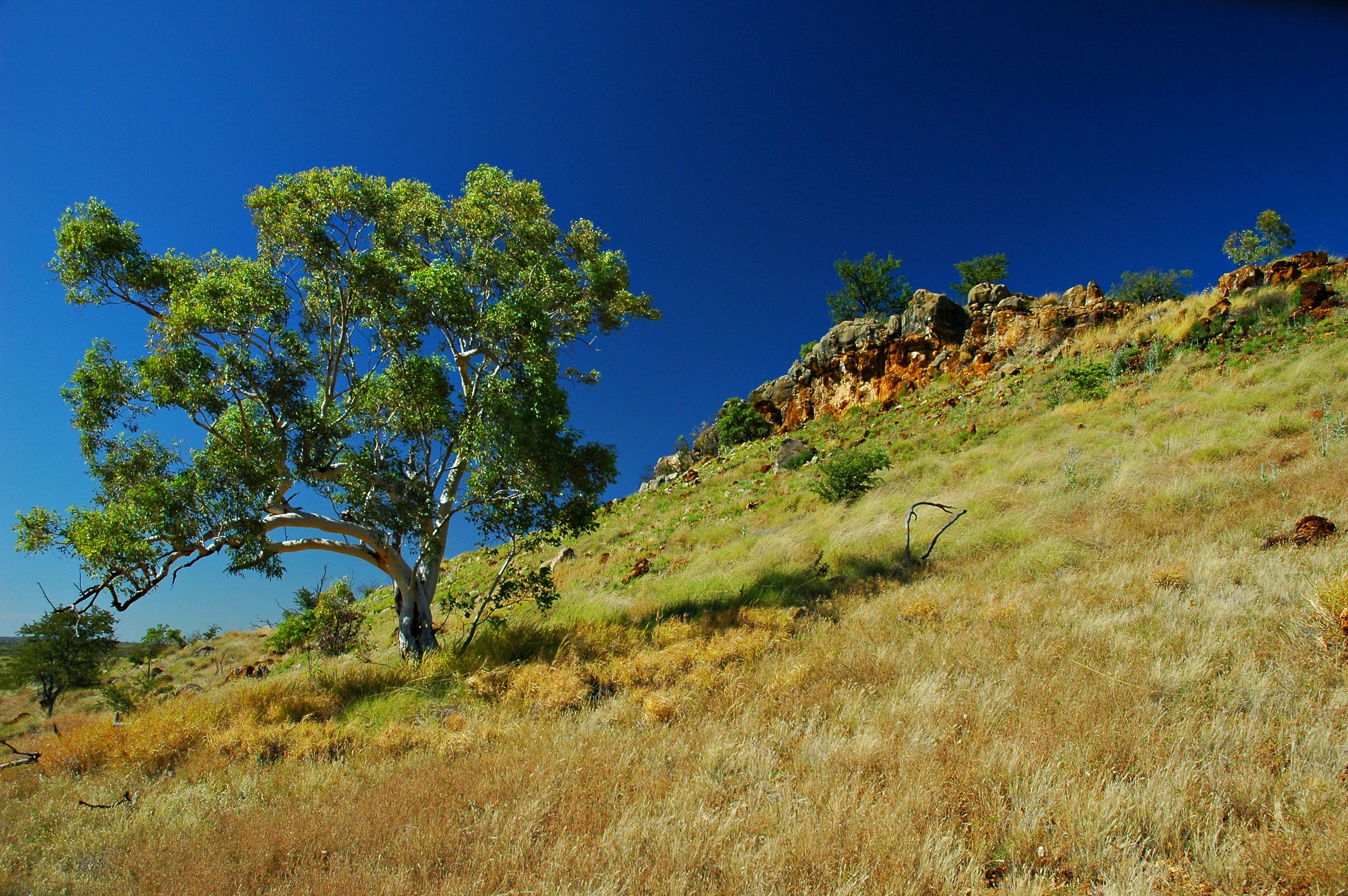 This outcropping was one of the first sites where fossil mammals were discovered and is the only site open to the public.